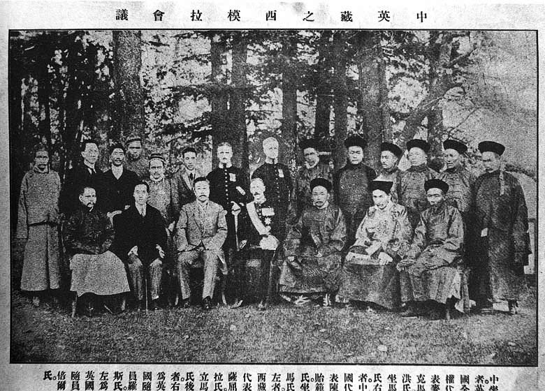 Simla Conference, October 1913. Behind, standing, on McMahon's left Archibald Rose and on his right Charles Bell. Seated, from left to right: Wangchuk Tsering, Chinese delegates B. D. Bruce, Ivan Chen, Sir Mac Mahon, Tibetan delegates Longchen Shatra, Trimon and Tenpa Dhargay (dronyer-chenmo)